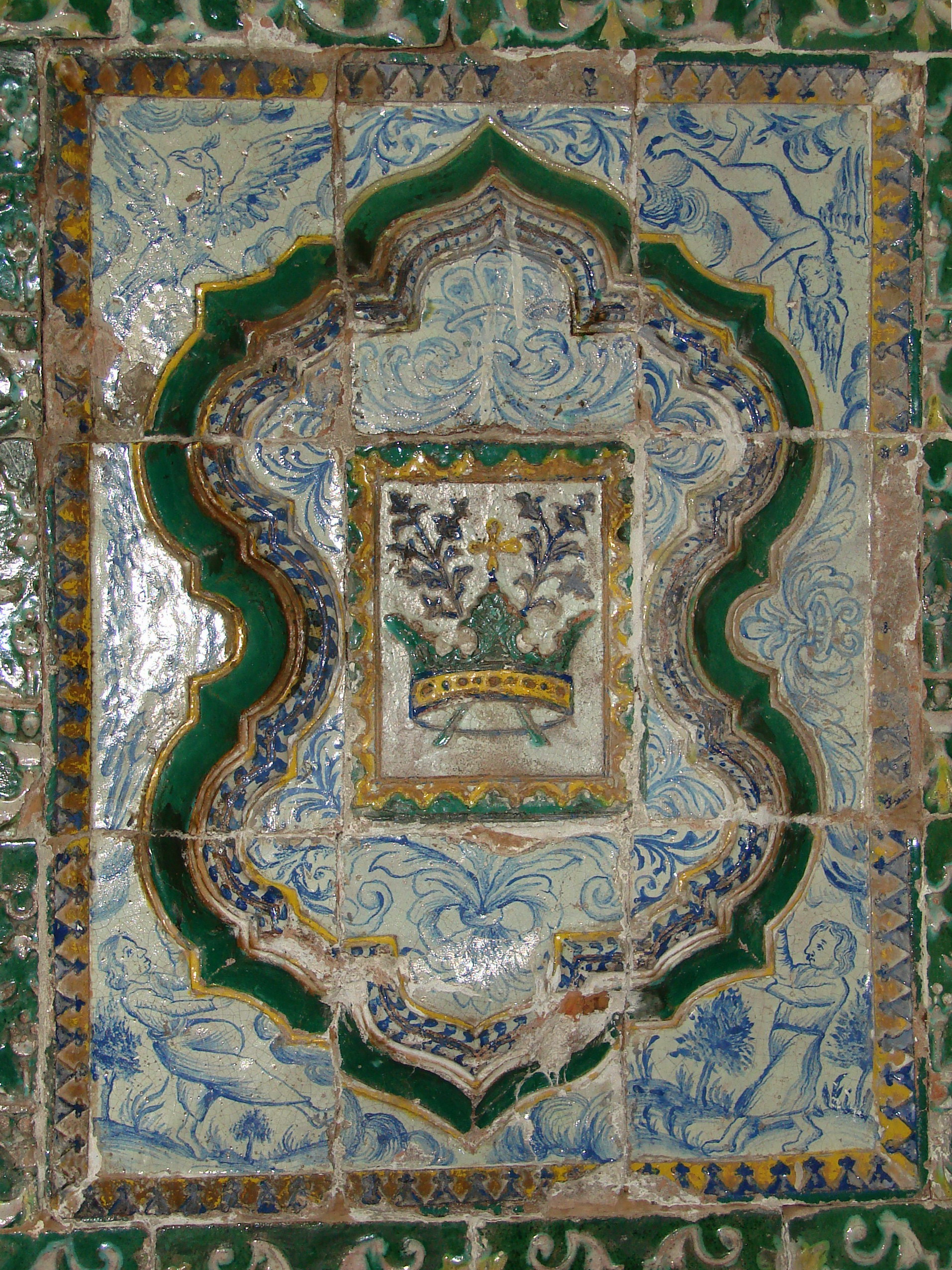 Tiles on the Dutch oven XVII century